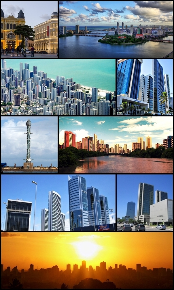 From upper left: Old centre of Recife; Recife and its bridges; Aereal view of Recife; Boa Viagem Beach; The Crystal Tower; Capibaribe River; The neighborhood of Boa Viagem; Agamenon Magalhães Avenue; and Recife Sunset.